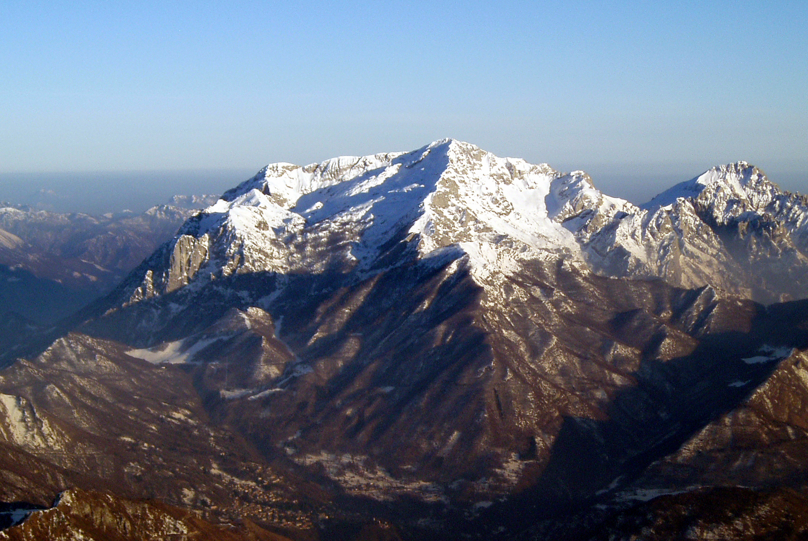 Moncodeno, Grigna Settentrionale, Parco Regionale della Grigna Settentrionale, 2010. Photo by Carlo Maria Pensa. Courtesy Archivio Pietro Pensa.